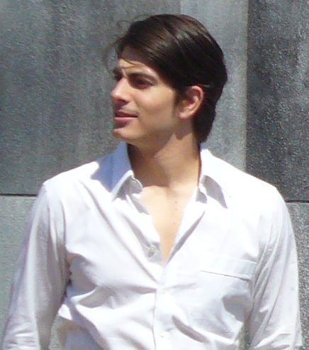 Portrait of actor Brandon Routh (Part of the picture Image:SupermanRedBull.jpg)